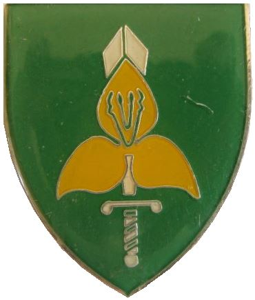 SADF 9 SA Division Flash